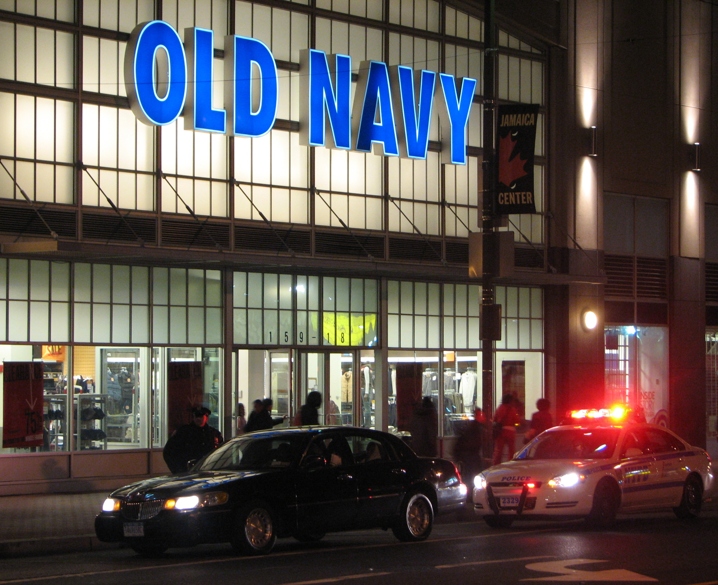 A police car in Queens, New York pulls over a driver.